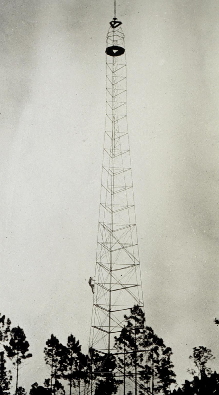 Station Hunter - 159 feet - one of the bigger towers. Photo #2 of sequence. Triangulation party of Kenneth Crosby.